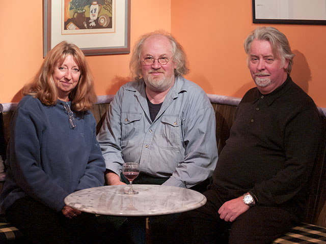 Jacqui McShee with John Renbourn, centre, and Wynd Theatre Melrose owner Felix Sear on Felix's 60th birthday, November 8th 2003. Felix booked them for a concert marking the day, though this was a regular annual booking. John lived 15 miles away.